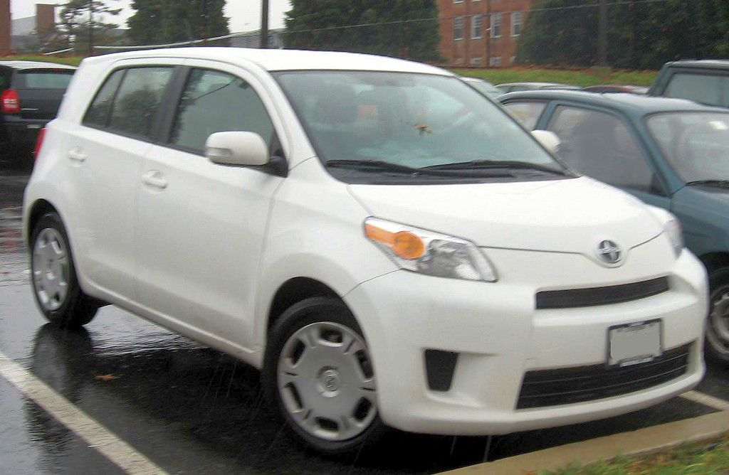 2008 Scion xD photographed in USA.